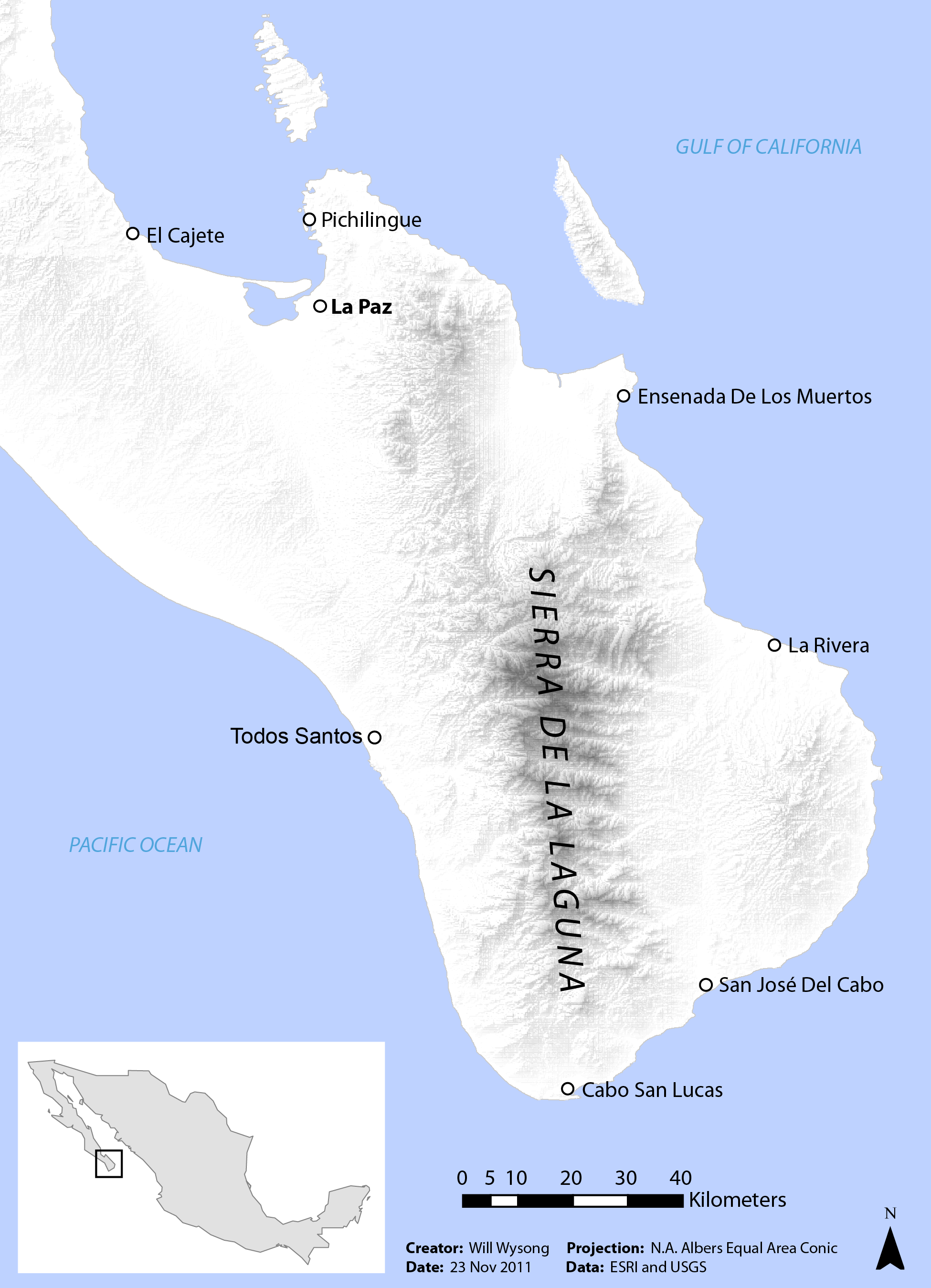 Sierra de la Laguna mountain range, the southernmost of the Peninsular Ranges system, on the southern tip of the Baja California Peninsula, México. A landform and Biosphere reserve located in Baja California Sur (state), in Northwestern México.